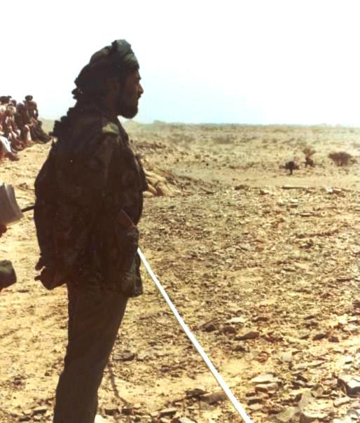 His Majesty Sultan Qaboos bin Said al Said of Oman, 1980.